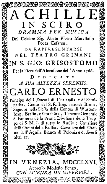 Florian Leopold Gassmann - Achille in Sciro - titlepage of the libretto - Venice 1766